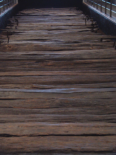 Wooden trackway from Corlea, Co. Longford, Ireland.